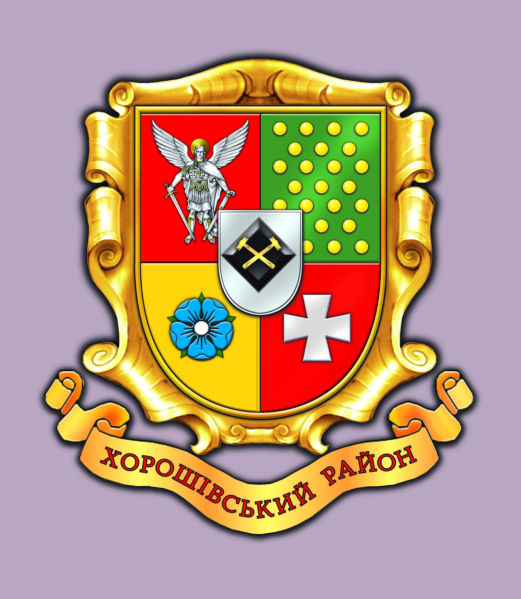 Coat Of Arms of Khoroshiv Rayon